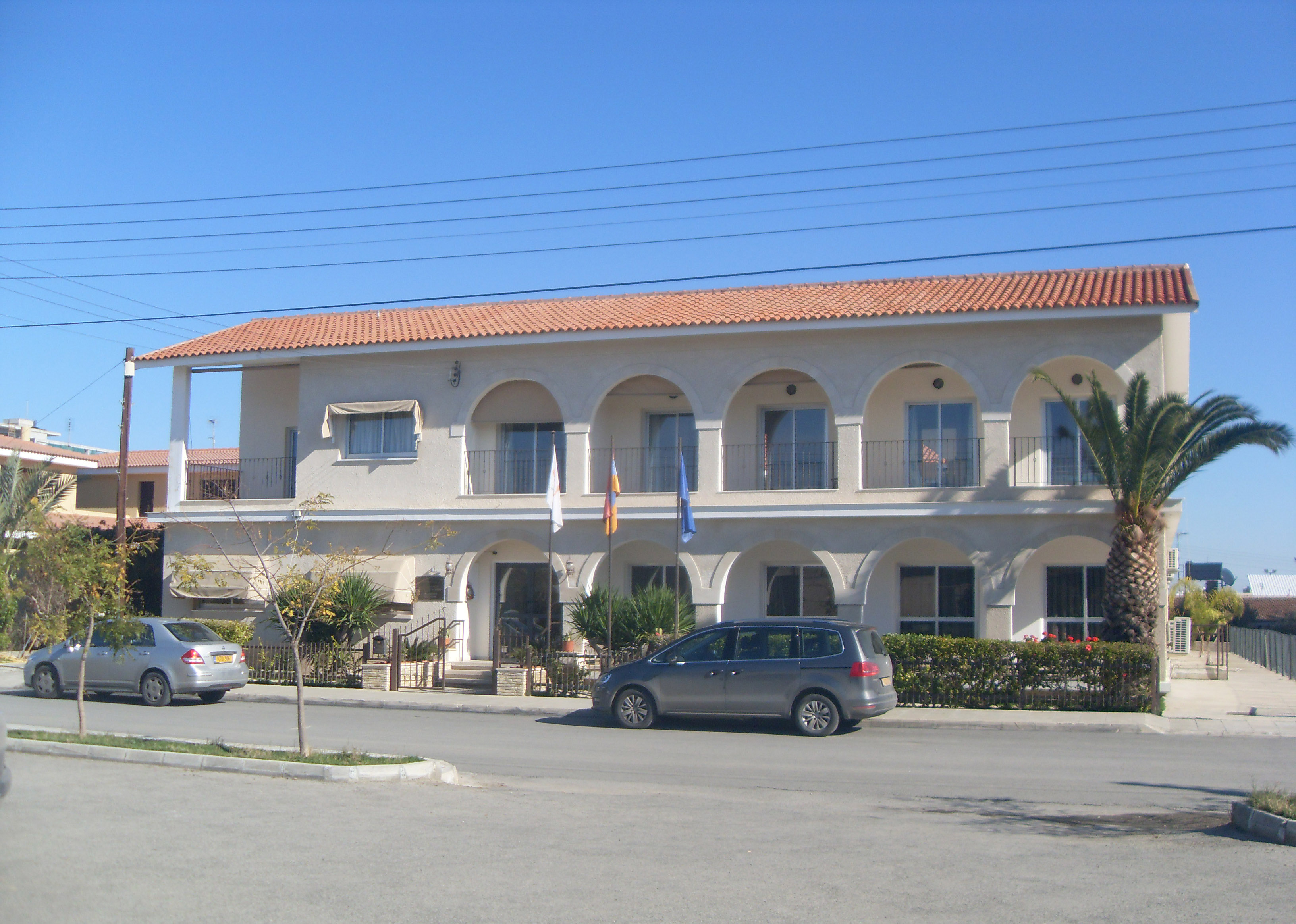 The Kalaydjian Rest Home for the Elderly in Nicosia